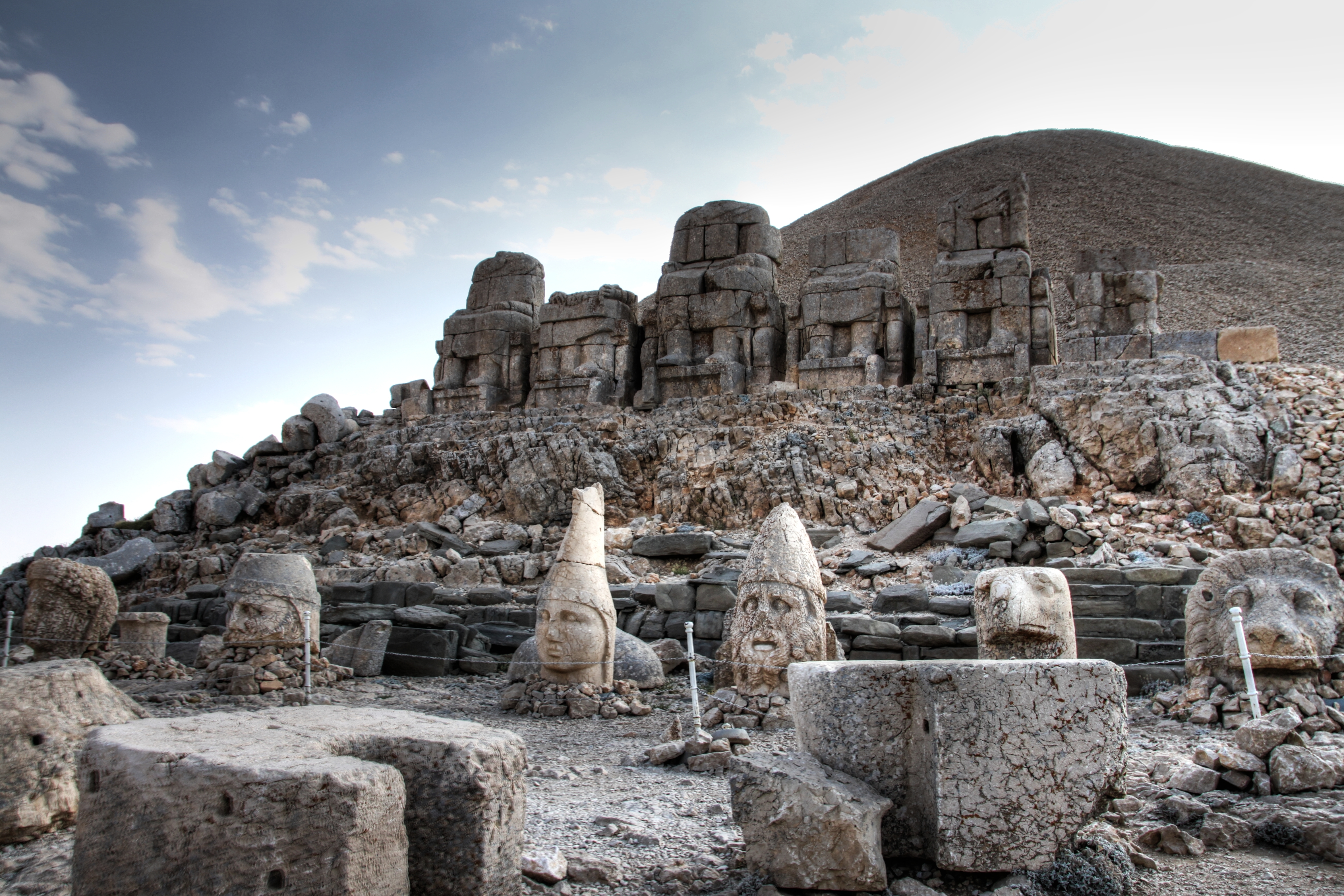 Mount Nemrut - East Terrace Nemrut Tümülüsü Gods of Commagene